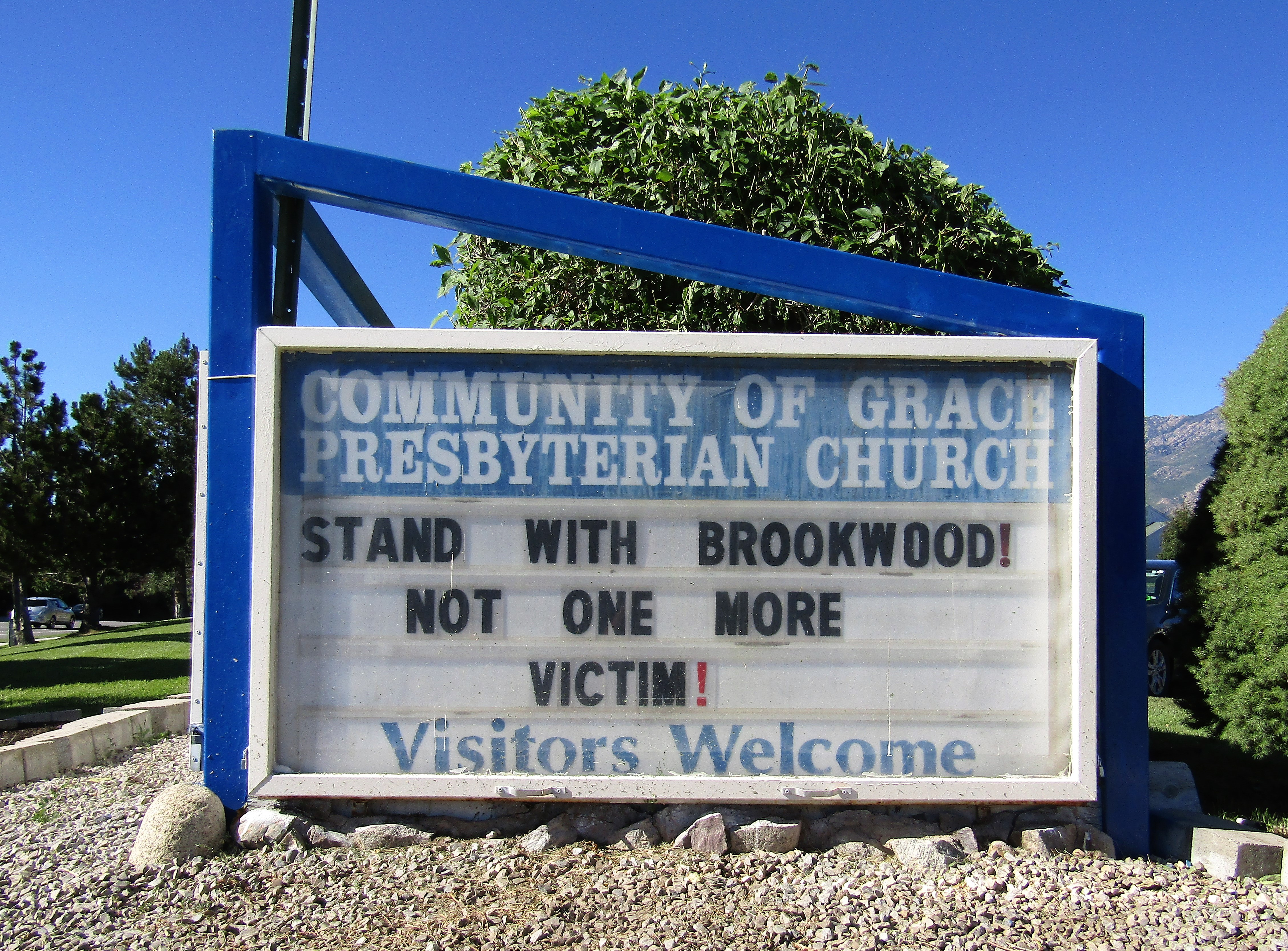 Sign outside a Presbyterian church expressing support for the victims of a shooting in Sandy, Utah. The sign reads, "Stand with Brookwood! Not one more victim!"